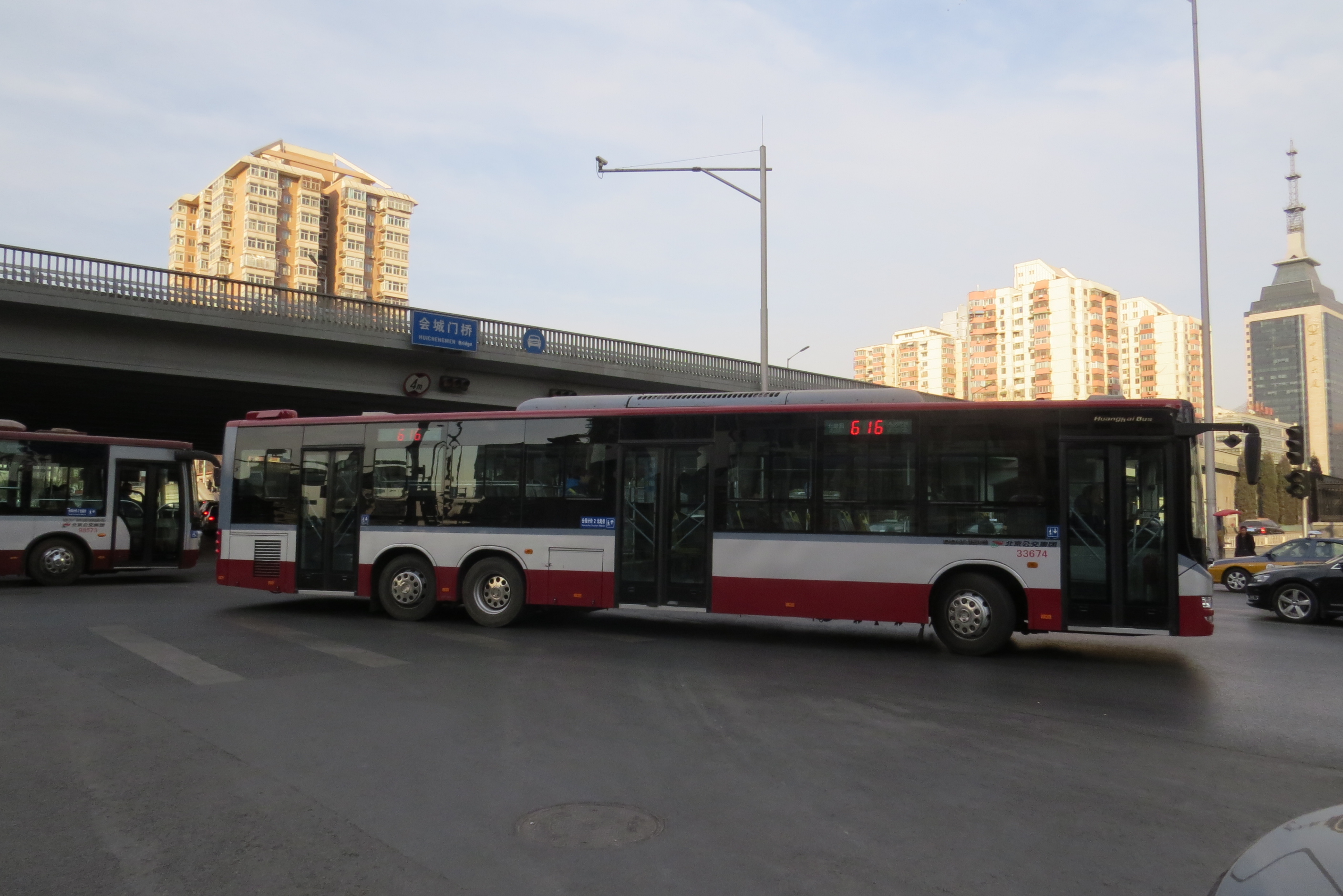 Route 616 from Liangxiang.